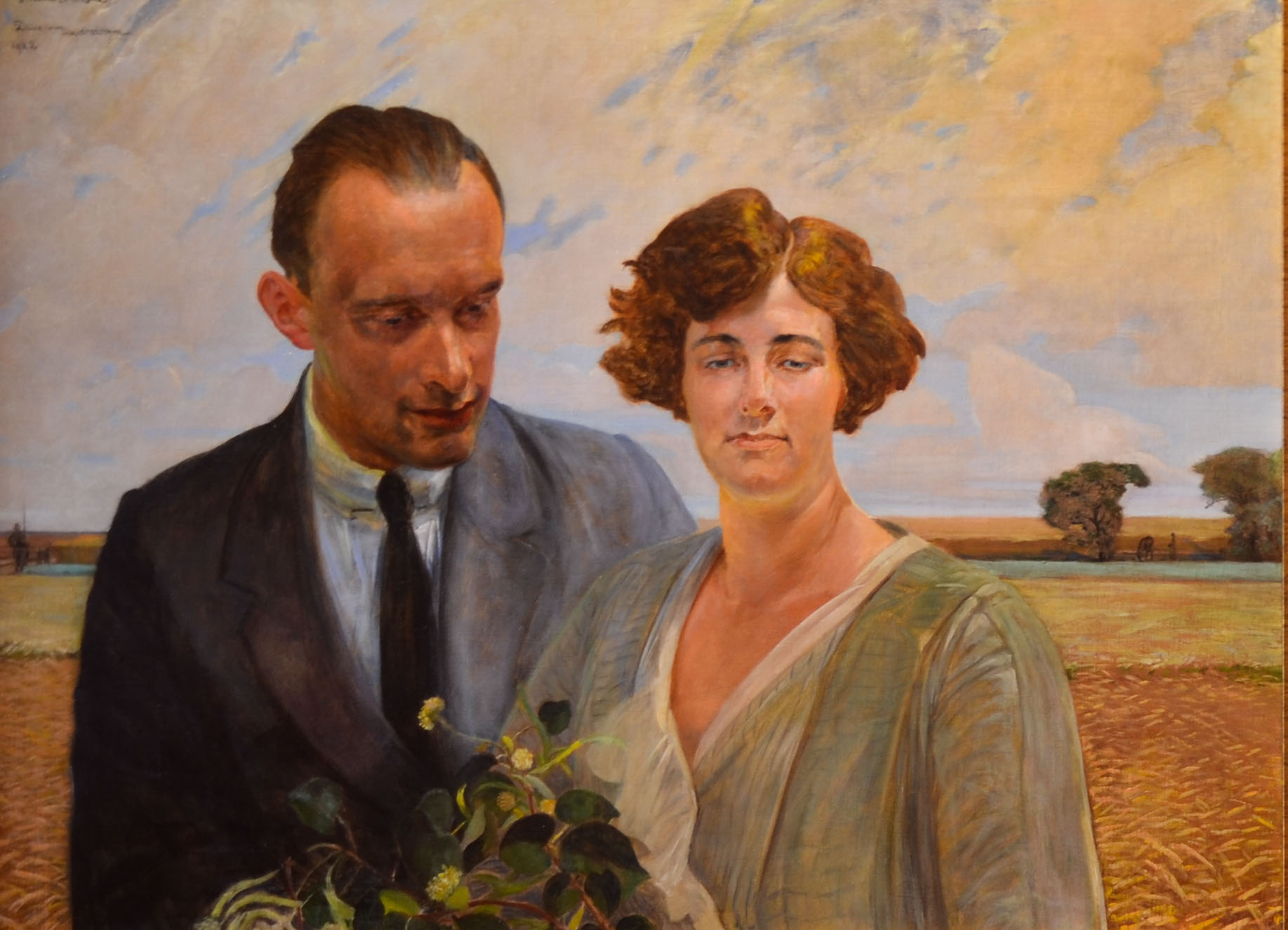 Jacek Malczewski, Portrait of the son Rafał and his wife (1922), Jacek Malczewski Museum in Radom, Poland